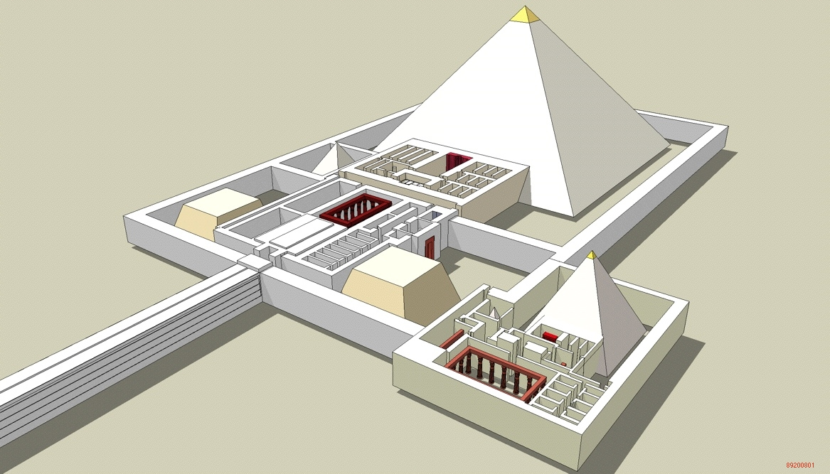 Restored view of the pyramidal complex of Djedkare and his still unnamed queen